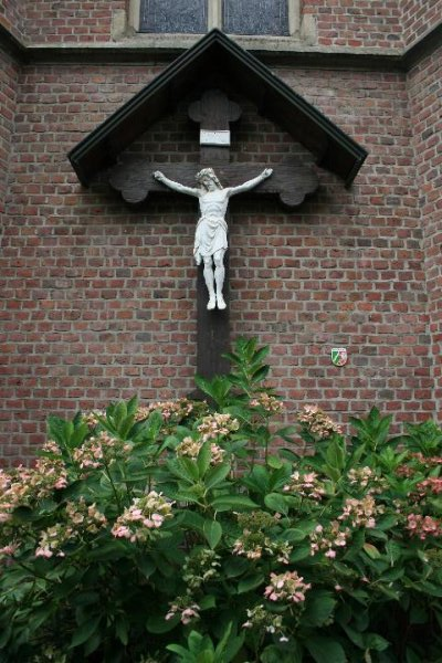 Cultural heritage monument No. 129 in Kempen